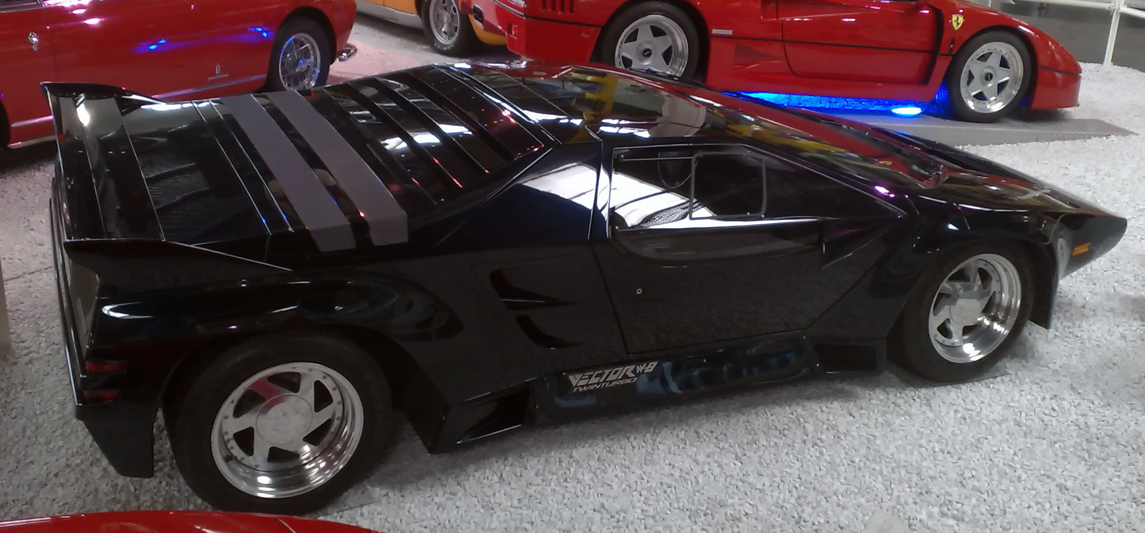 Vector Twin Turbo W8 at Auto- und Technikmuseum Sinsheim